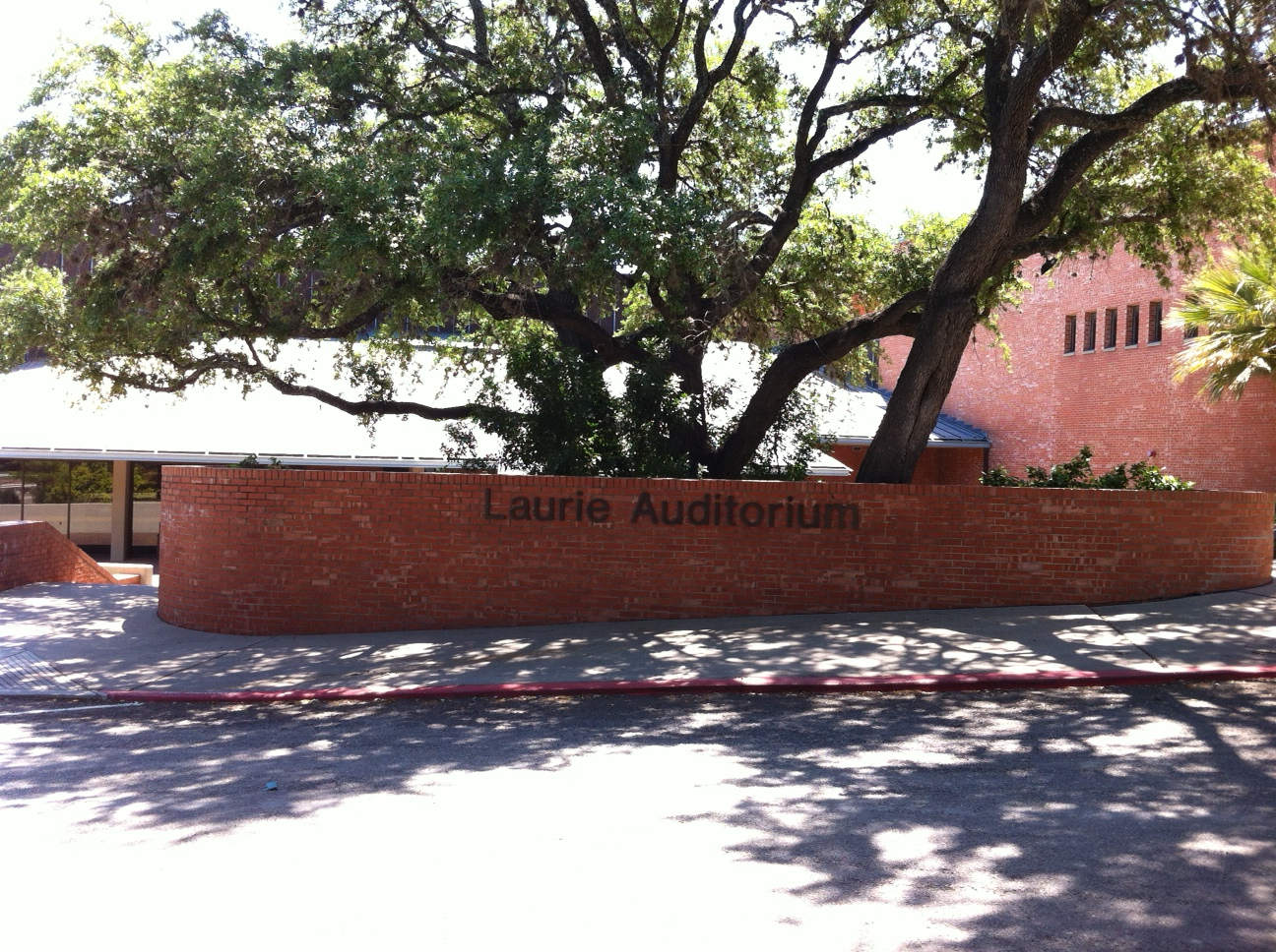 Laurie Auditorium, Trinity University